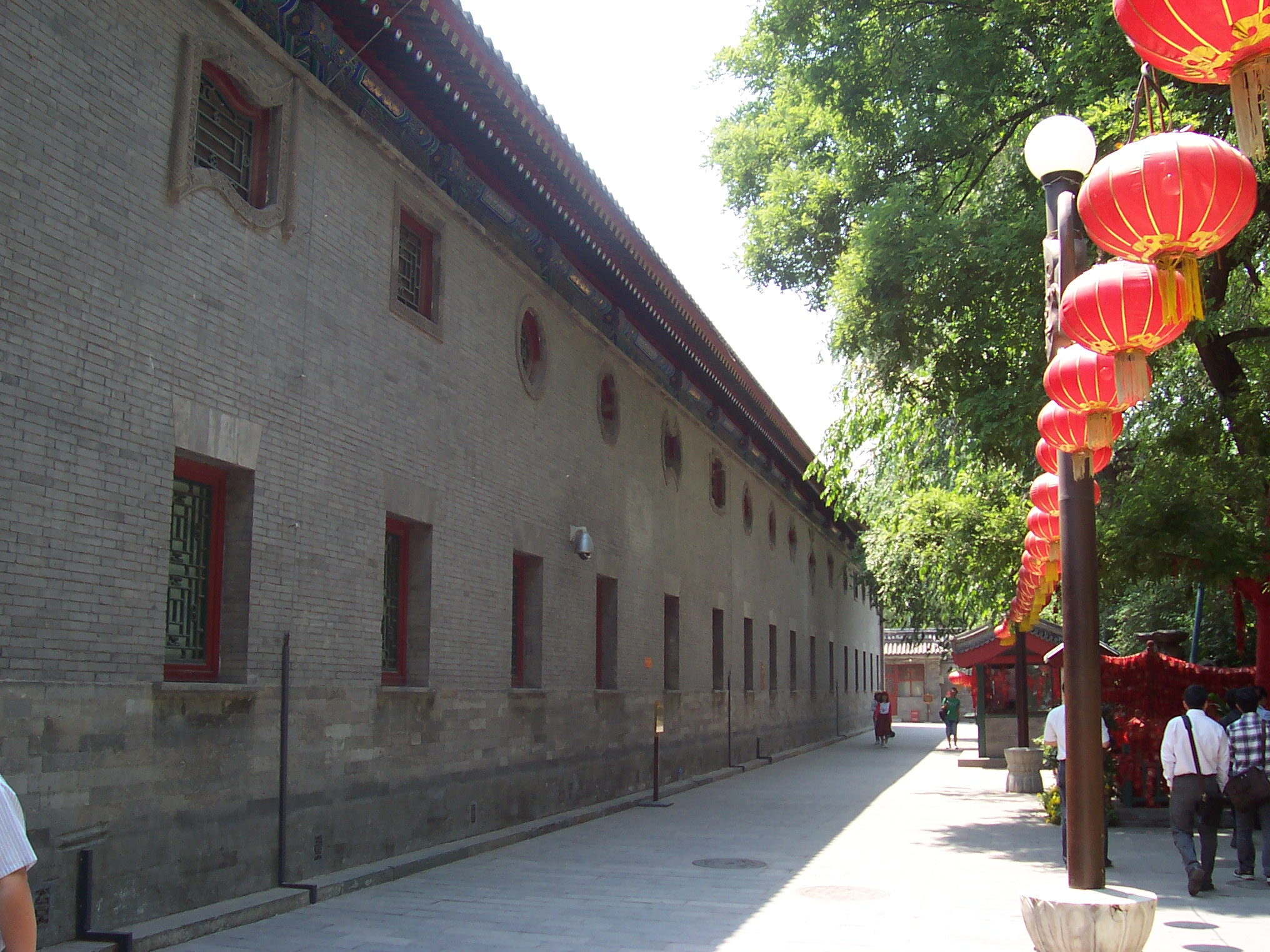 Gongwangfu Changbaolou